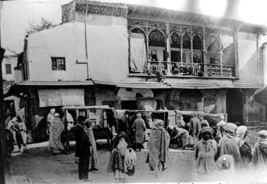 Fondouk of Béni Abbès (kabyle tribe) in Constantine (Algeria) in XIX century.